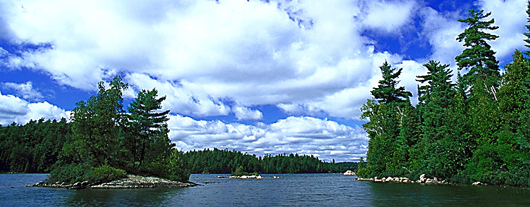 Lake Temagami - Temagami, Ontario, Canada